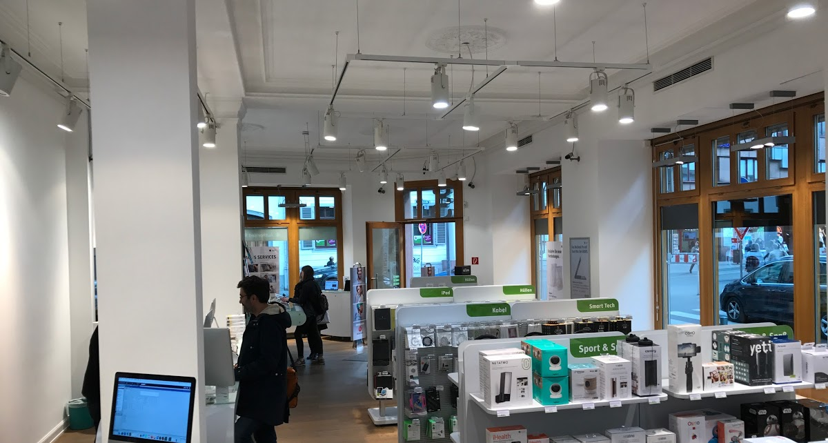 A typical Gravis store